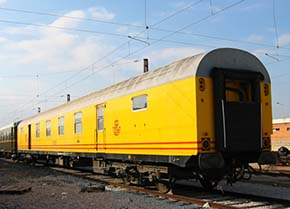 Post wagon RENFE